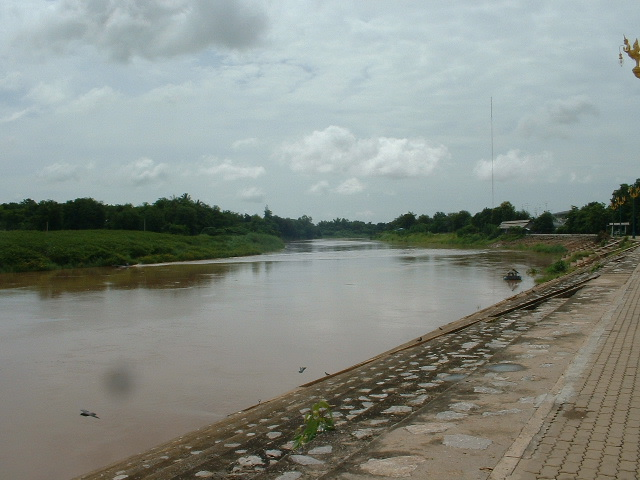 The Nan river — in front of Wat Tha Luang, Phichit province. Cobblestoned river bank.